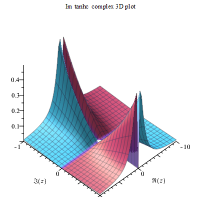 Tanhc Im complex 3D plot